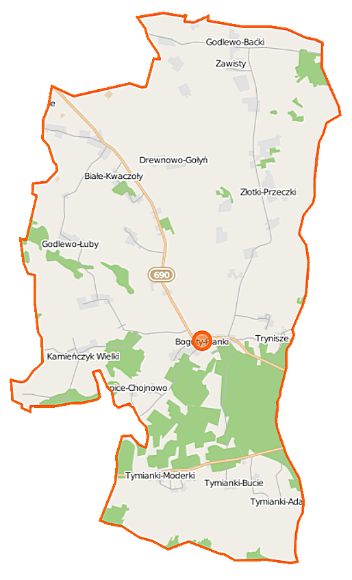 Map of Gmina Boguty-Pianki, Poland This map of Boguty-Pianki (gmina) was created from OpenStreetMap project data, collected by the community. This map may be incomplete, and may contain errors. Don't rely solely on it for navigation. Border coordinates52.798822.3242←↕→22.465752.6579